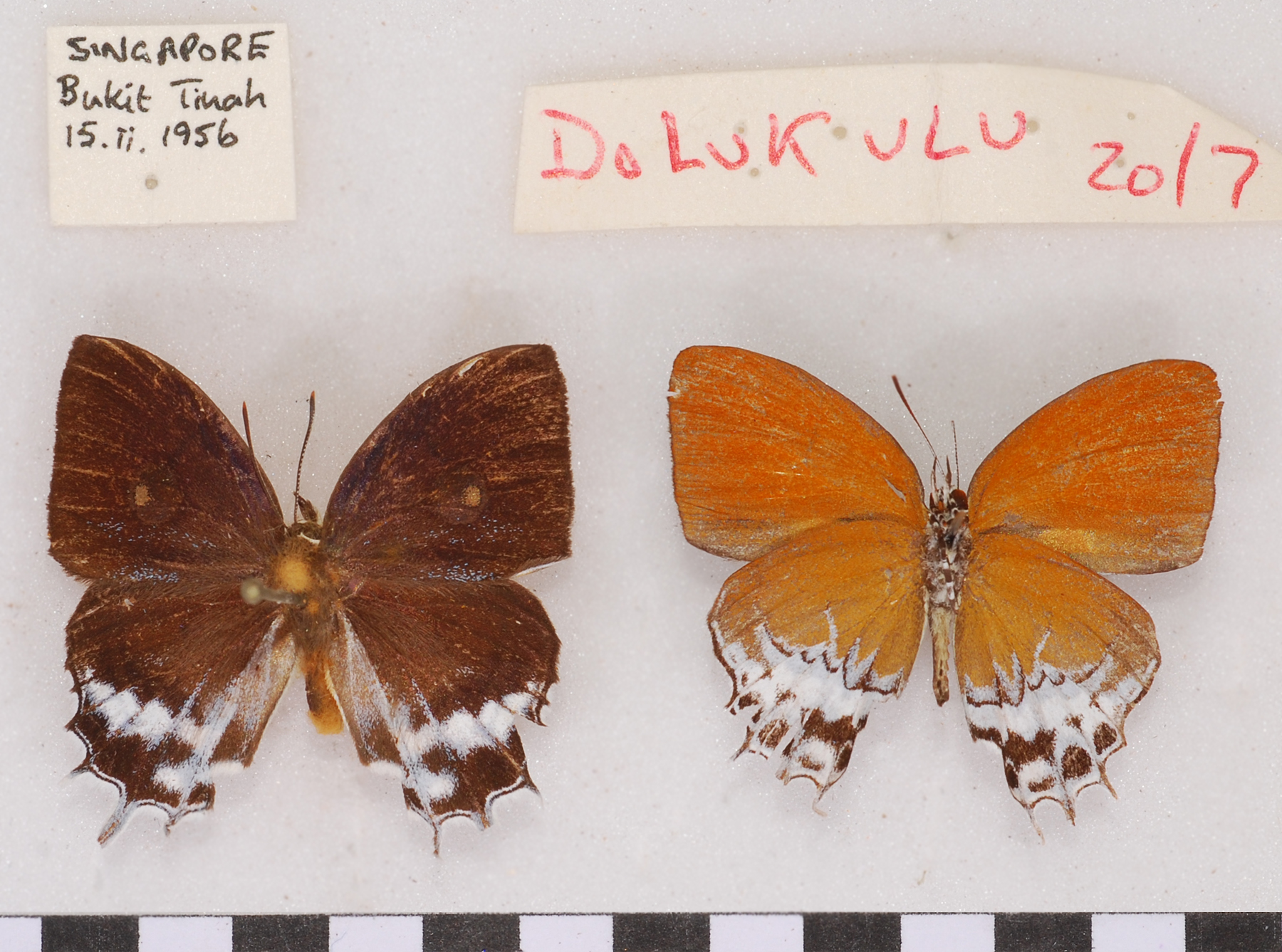 Eooxylides tharis distanti, set specimens, West Malaysia, Alan Cassidy photo.